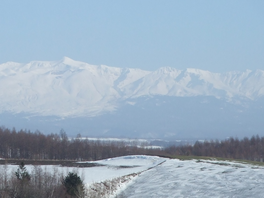 Mount Tokachi and Mount Kamihorokamettoku and Mount Kamifurano seen from the WNW in Hokkaido, Japan.